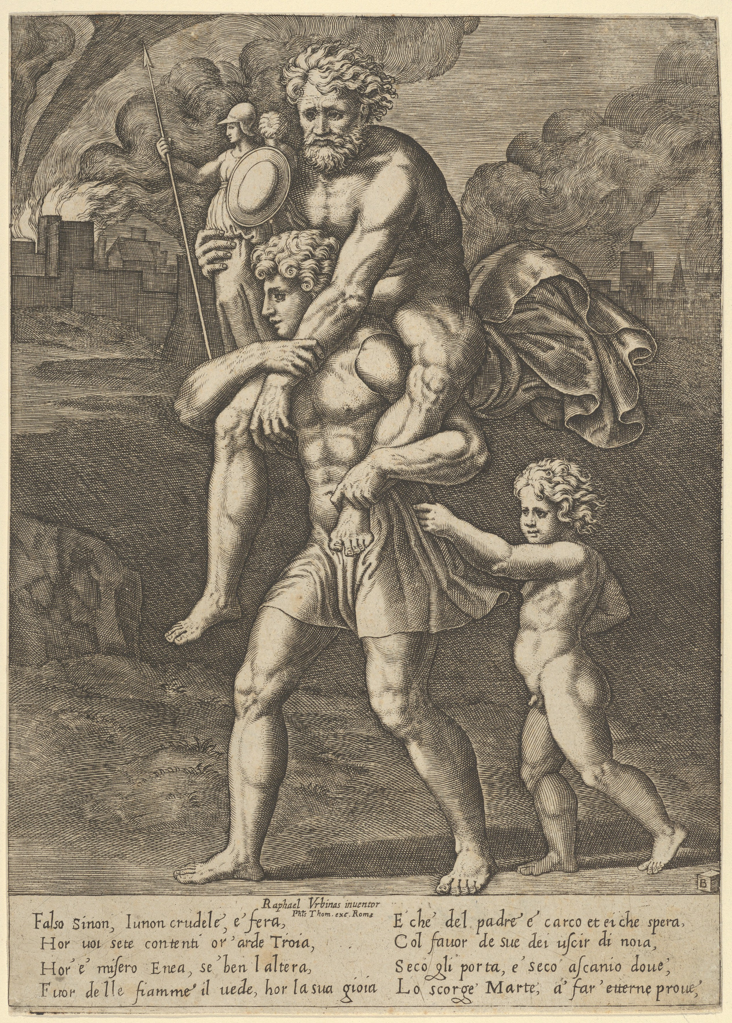 Print; Prints